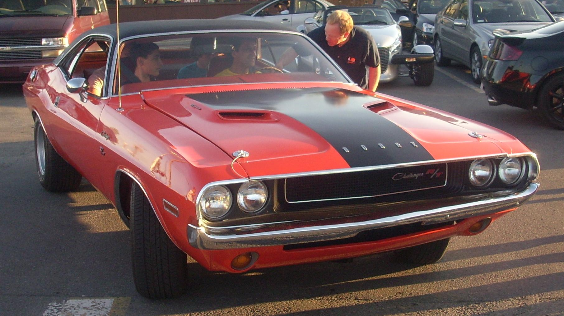 Dodge Challenger photographed in Montreal, Quebec, Canada at Gibeau Orange Julep.